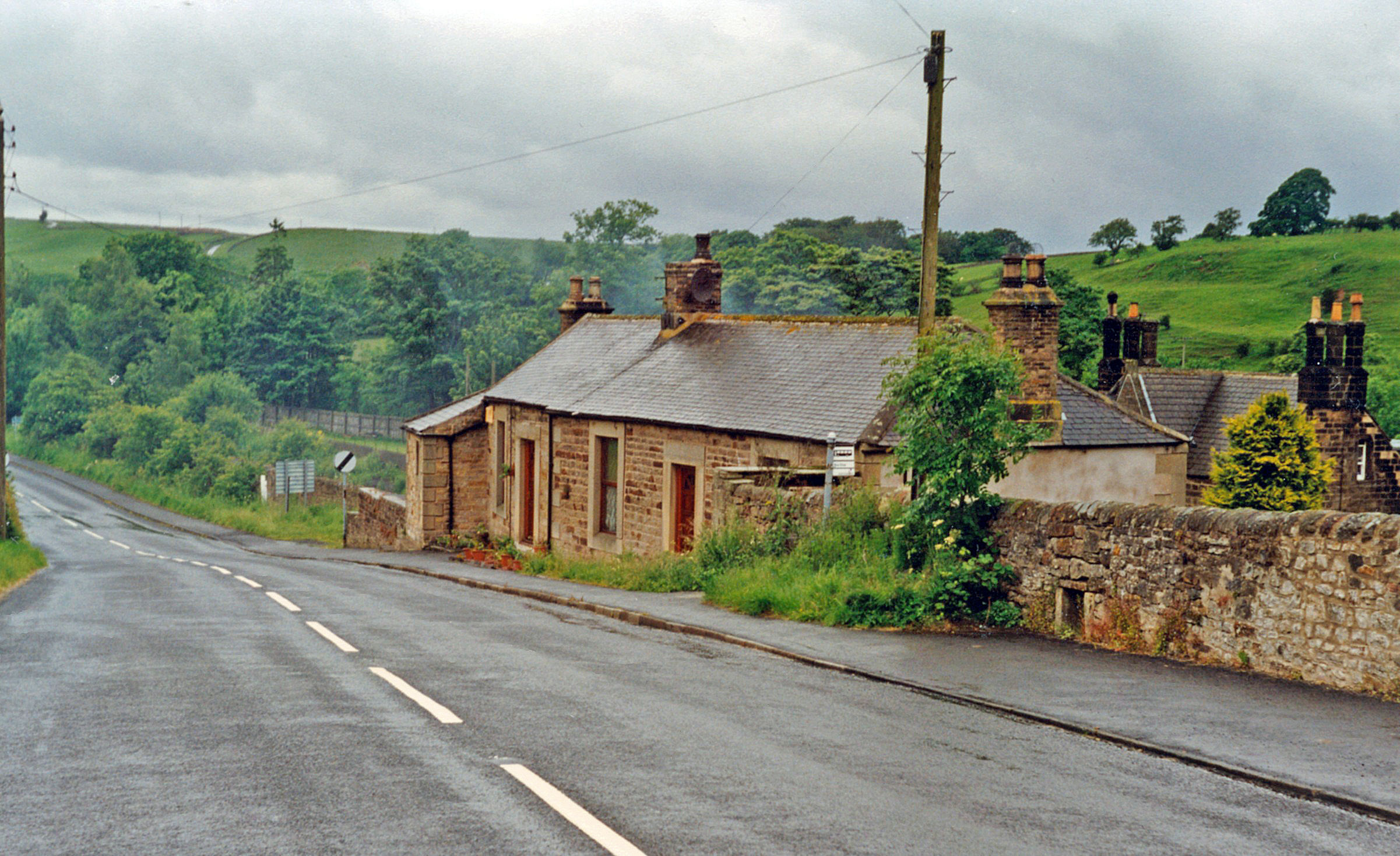 Greenhead: northward beside site/remains of station, 1997. View northward on B6318 to Gilsland, towards the summit of the ex-NER Newcastle - Carlisle main line, see NY6565 : Site of former Greenhead station, 1997. This is the head of the valley of the River South Tyne and close to the border between Northumberland and Cumberland: the course of Hadrian's Wall is along the bank on the right